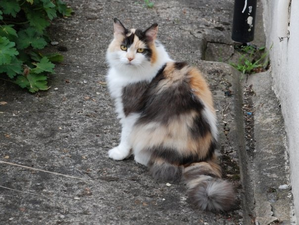 Longhaired Calico Cat